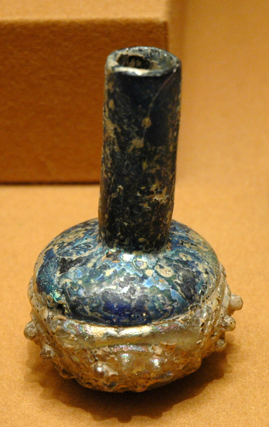 Bottle with star-shaped medallions.